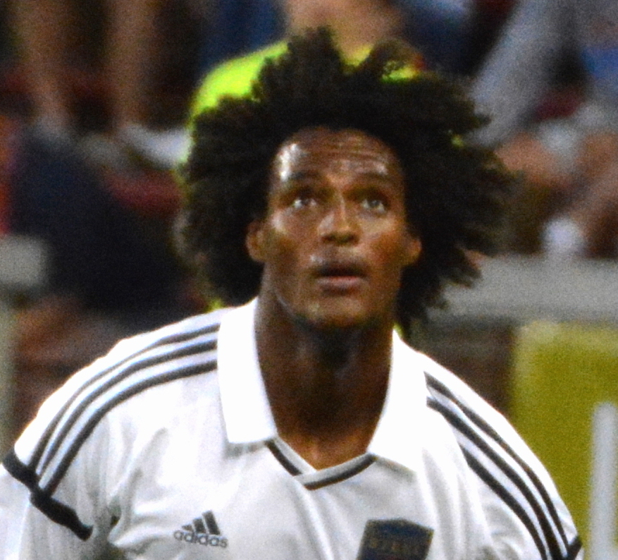 Yosef Samuel Taken during a match between FC Cincinnati and Bethlehem Steel FC at Nippert Stadium in Cincinnati, USA on May 20, 2017.